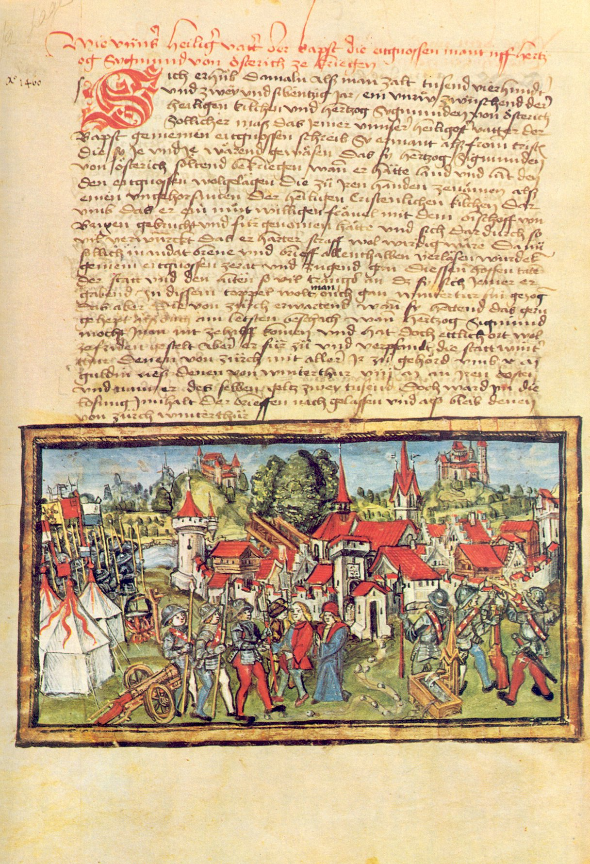 The Swiss besiege the then Habsburg city of Diessenhofen in 1460.